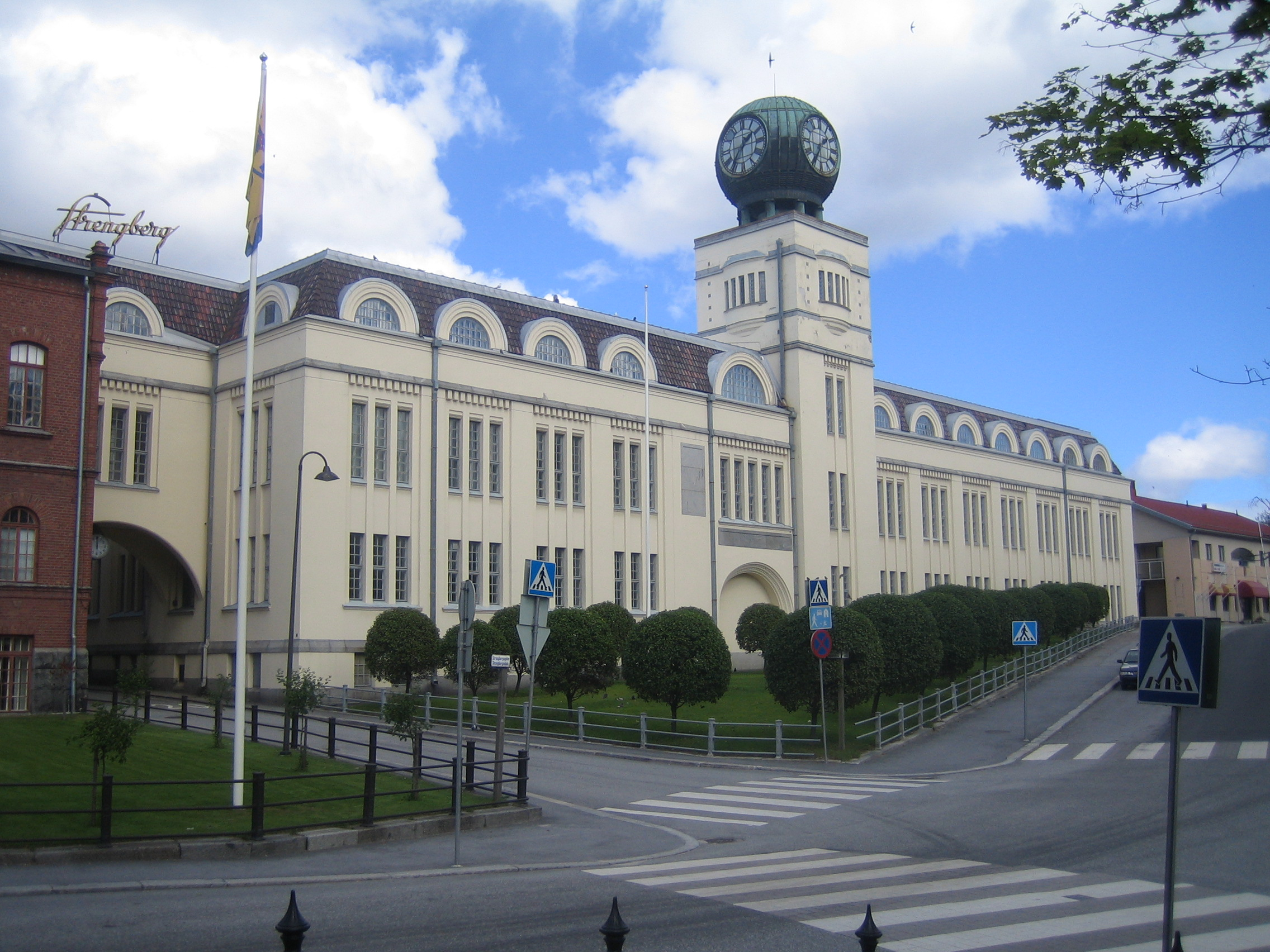 Strengberg's old tobacco factory in Jakobstad, Finland. The clock ball functions as the symbol of the city of Jakobstad.